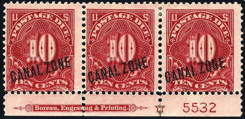 Canal Zone Postage Due-1c, 1914 Issue, plate strip of 3